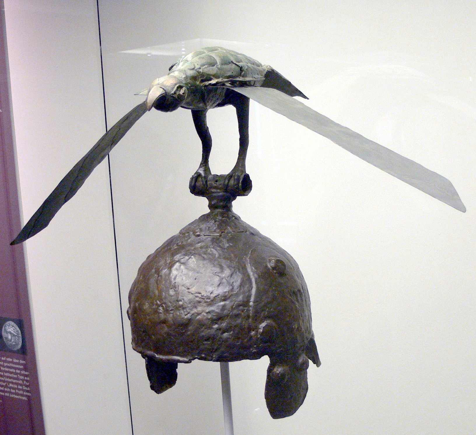 Celtic Museum Manching ( Bavaria ). Exhibition "Rome´s unknown borders": Replica of a Celtic helmet (3rd century BC ) from Ciumesti, district Satu Mare ( District Museum Satu Mare ).